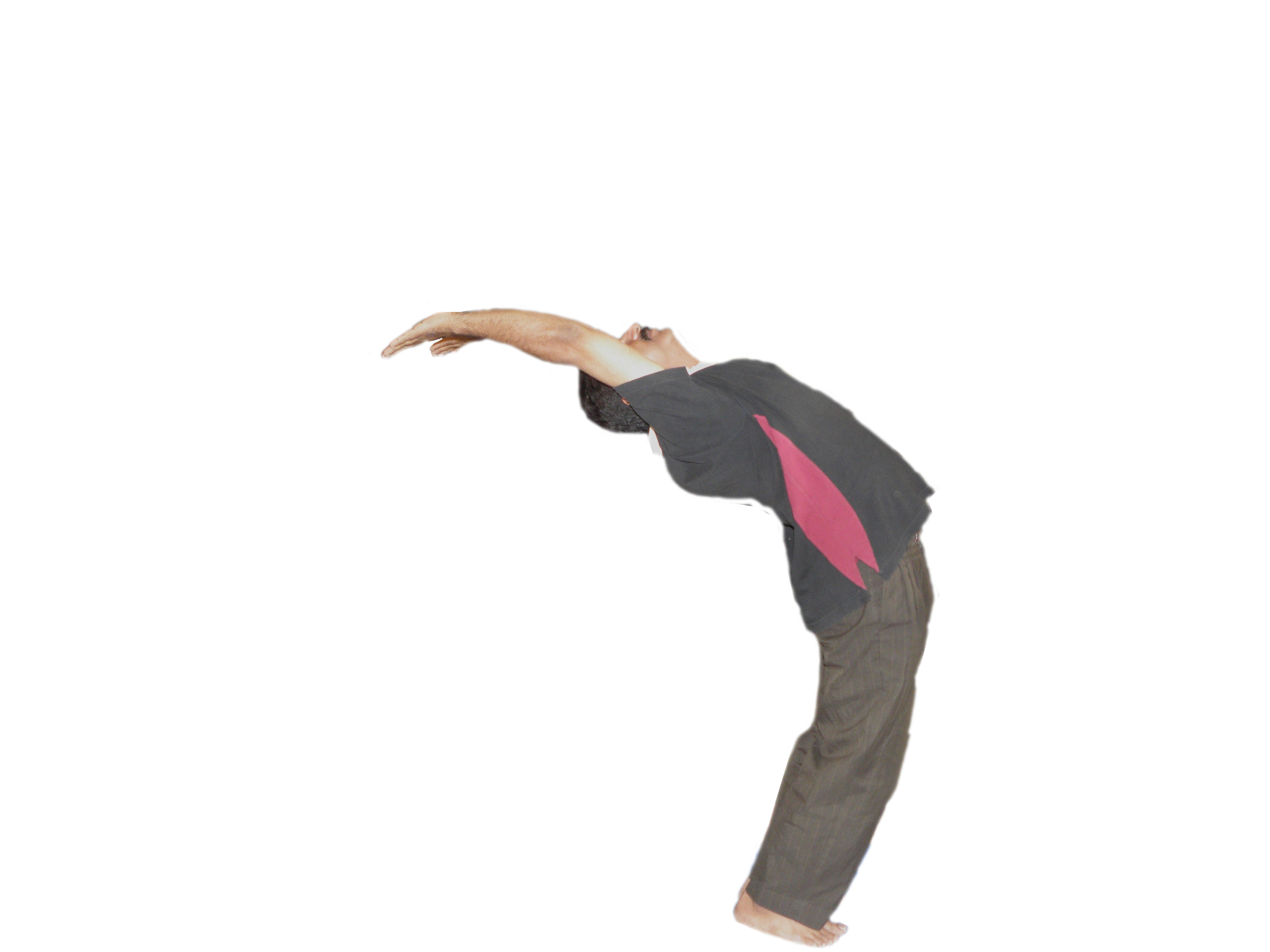 Raised Hands Pose